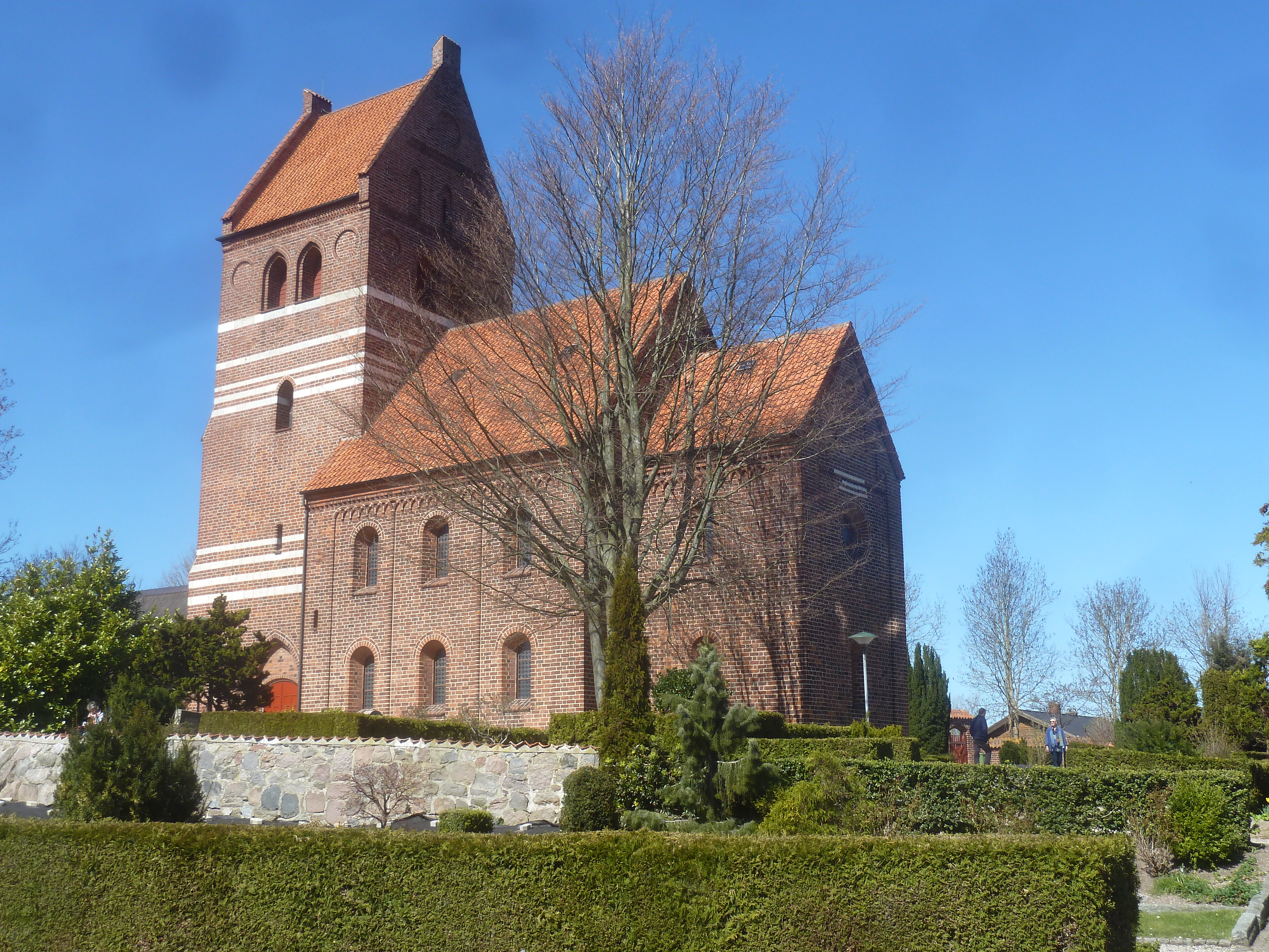 Ledøje Kirke, Ledøje, Denmark